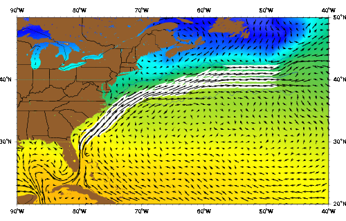 Flowchart of currents along the Gulf Stream on the East Coast of North America